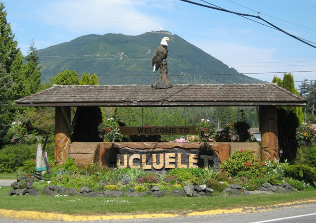 Welcome to Ucluelet